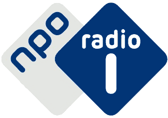 Futur logo officiel de NPO Radio 1 à partir de septembre 2014[1]Toekomstige logo van NPO Radio 1 vanaf september 2014[2]Official logo of NPO Radio 1 from September 2014.